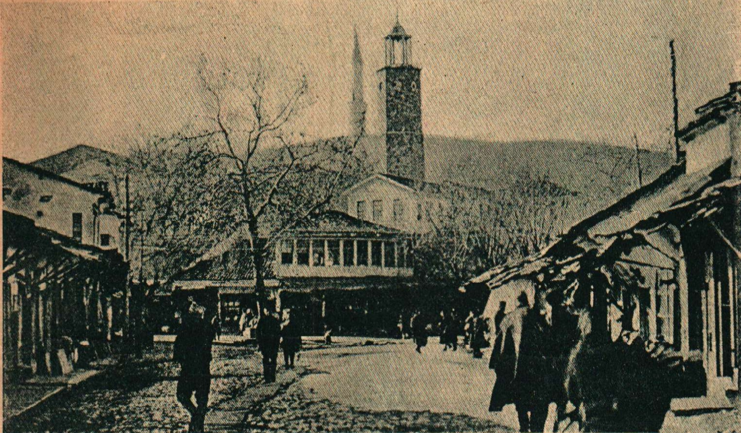 Hristo Silyanov